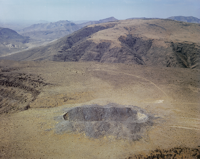 The DOE National Nuclear Security Administration Nevada Site Office (NSO) had earmarked a portion of its $44 million in Recovery Act funds to complete cleanup-phase activities at the Buggy site and other historically-contaminated atmospheric test locations at the NNSS. Efficiencies in scheduling and planning allowed NSO to move beyond the cleanup process to the closure stage.